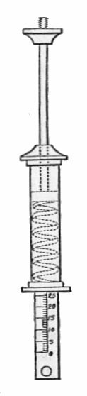 Salter coil-spring spring balance, used as part of a boiler safety valve.